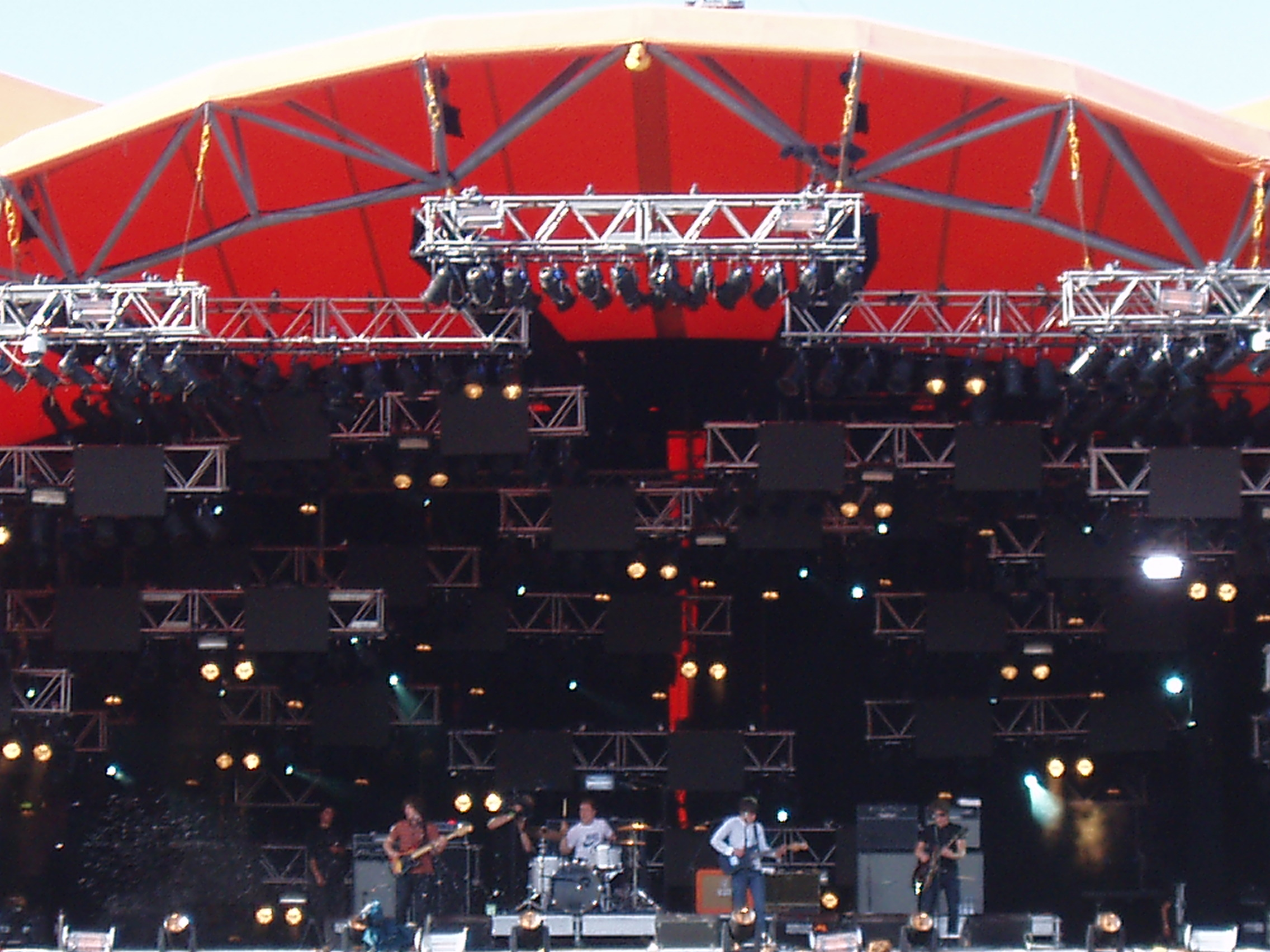 Arctic Monkeys performing on Orange stage at Roskilde Festival 2007